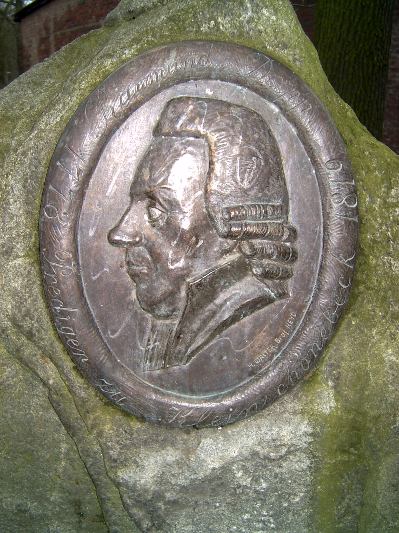 Raymund Dapp Memorial in Schöneiche